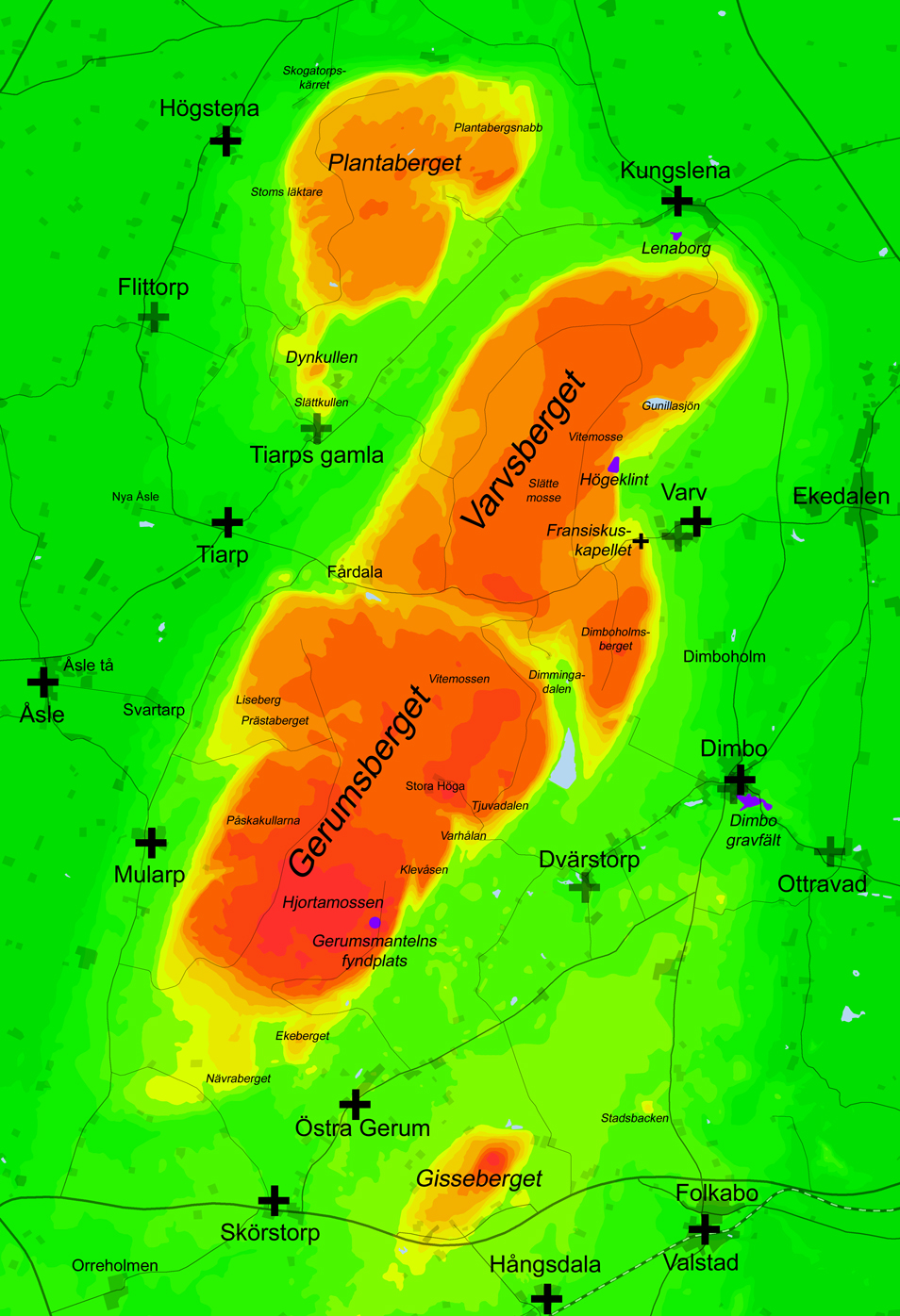 Map over the four table mountains Plantaberget, Varvsberget, Gerumsberget, and Gisseberget in Falköpings municipality and Tidaholm municipality, the Falbygden area, former Skaraborg county, Västergötland, Sweden.Scale 1:40,000. Topography: Altitude is shown with different colours from green over yellow to red. Water: Lakes are blue. Churches: The churches of Kungslena, Varv, Dimbo, Valstad, Hångsdala, Östra Gerum, Skörstorp, Mularp, Åsle, Tiarp, and Högstena parishes are marked with black crosses. The church-ruins of Varv old church, Dimbo old church, Ottravad, Dvärstorp, Tiarp old church, and Flittorp are marked with grey crosses. Roads, populated areas, villages, and farms are different shades of grey. The Mediaeval castle Lenaborg, the hillfort Högeklint, the large Iron Age cemetery in Dimbo, and the finding place of the Gerum Cape are marked violet.